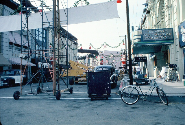 The Burbank Studios, now known as the Warner Brothers Studio, in 1979. This photo shows the set of Steven Spielberg's movie 1941.